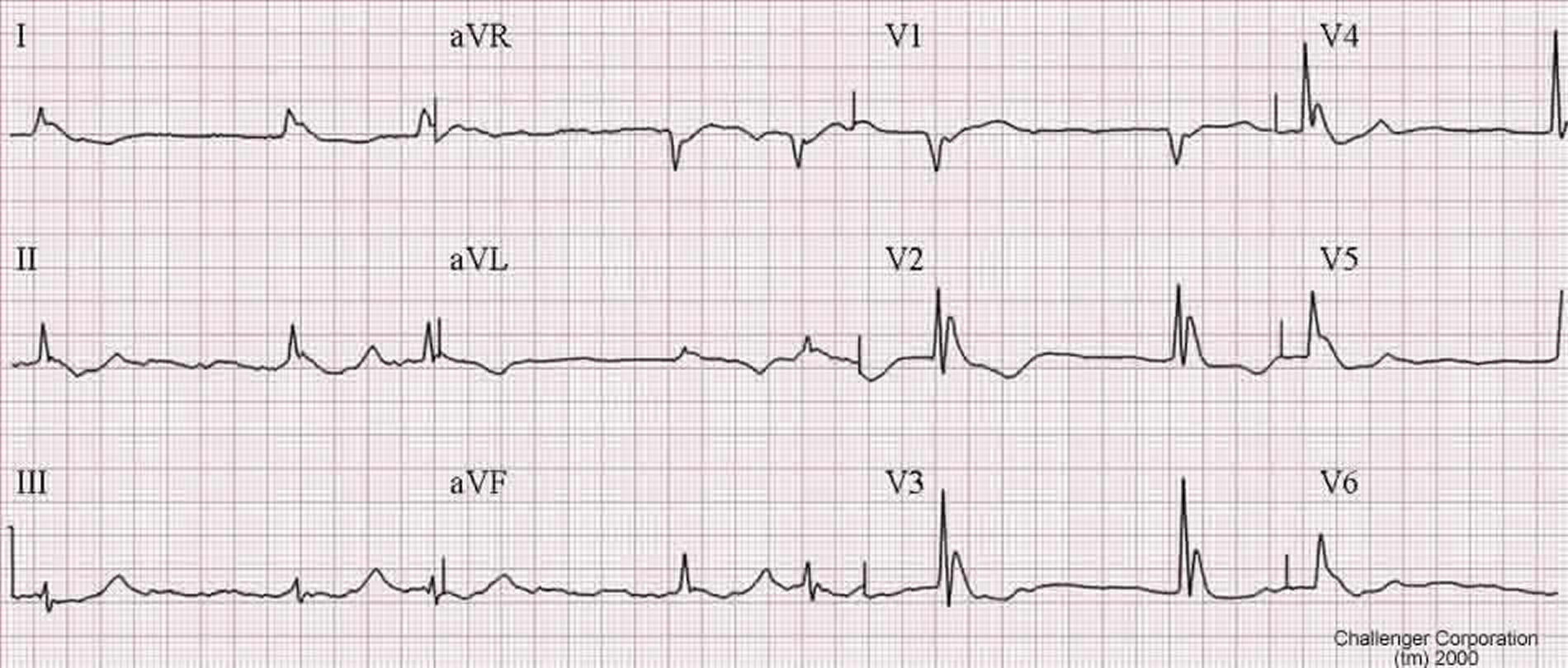 An example of an Osborn J wave in a hypothermic person.